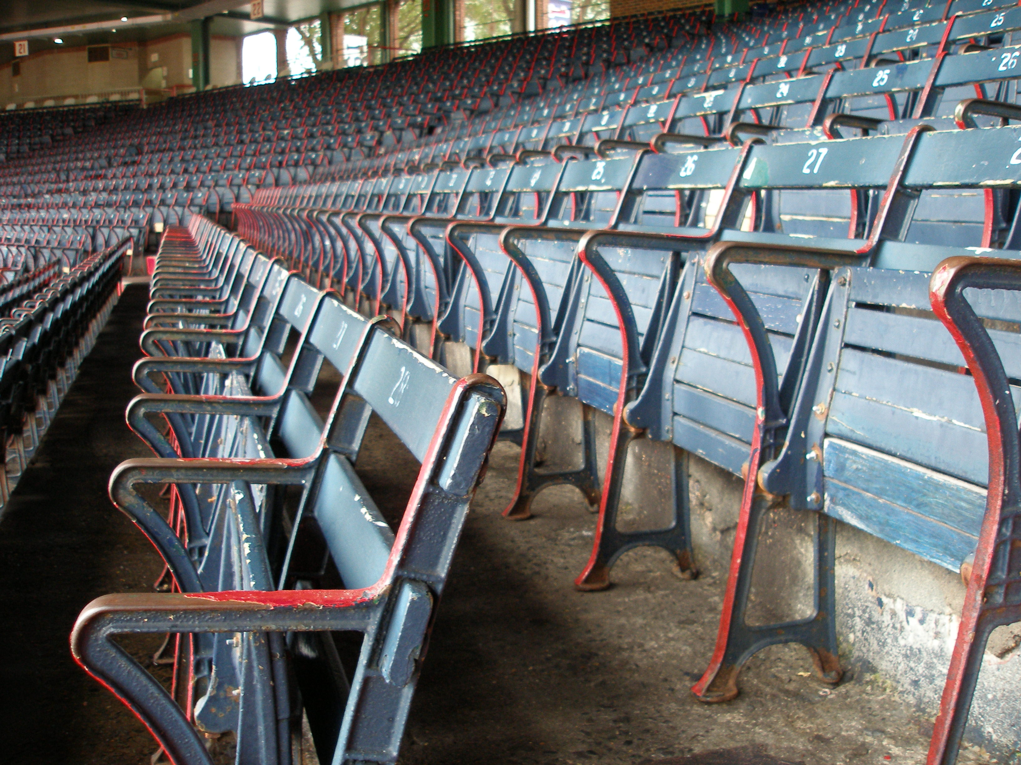 20:02, 6 September 2006 . . Aido2002 . . 3264×2448 (1,452,124 bytes) (The wooden seats of the Fenway Park grandstand section. Photo taken by Aidan Siegel. The liscense I released it under says that anyone may use the photo, as long as they give me credit for the photo, and if you edit this photo, you must still give me credit for taking the original one. However, I may waive this liscense, if you email me see my user page, and tell me what you want it for. If you want ti for a cause that I wish to waive this for, I will.)